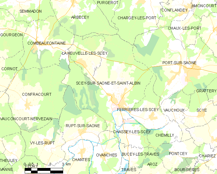 Map of French municipality